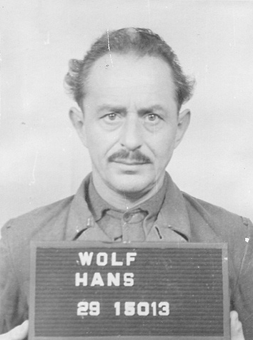 Hans Wolf was prisoner-functionary and camp elder in the KZ Tröglitz, a subcamp of the concentration camp of Buchenwald. In the Buchenwald Camp Trial (part of the Dachau Trials) he was sentenced to death by hanging.